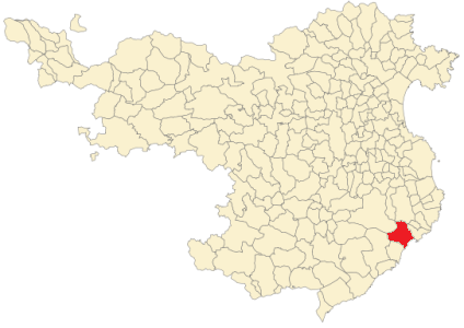 Calonge